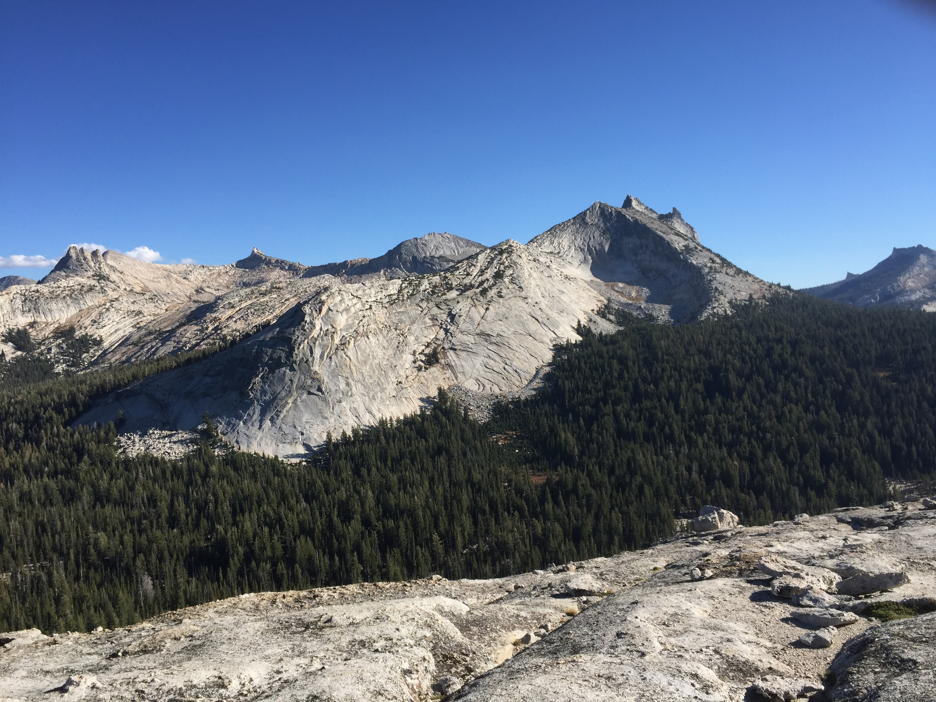 Fairview Dome view from the summit. Visible Cathedral Range, from L-R: Unicorn Peak, Cockscomb, Echo Ridge and Cathedral Peak. Tuolumne Meadows section of Yosemite National Park.